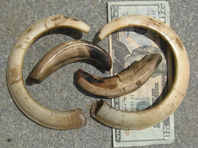 These are tusks from a domestic pasture raised boar named Big'Un. These were removed after he died naturally in the field in his sleep. See File:BigUnBedHeadSnow0428w.jpg for a picture of when the tusks were in place in the live boar. I am the owner of the boar, owner of the tusks, took the photograph, own the photograph and giver permission for it to be used and transfered unaltered to the commons. for his story. Walter Vose Jeffries, Sugar Mountain Farm